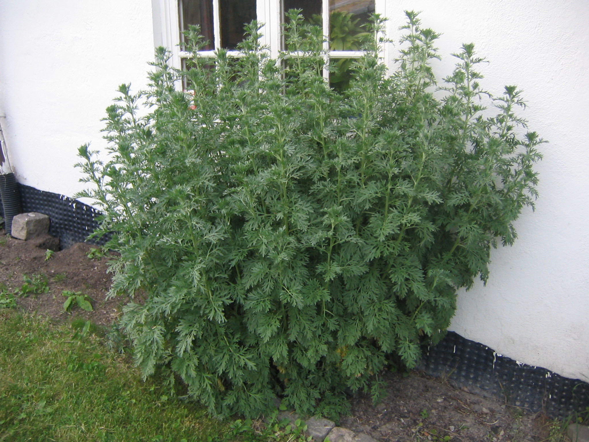 A wormwood bush (Artemisia absinthum)